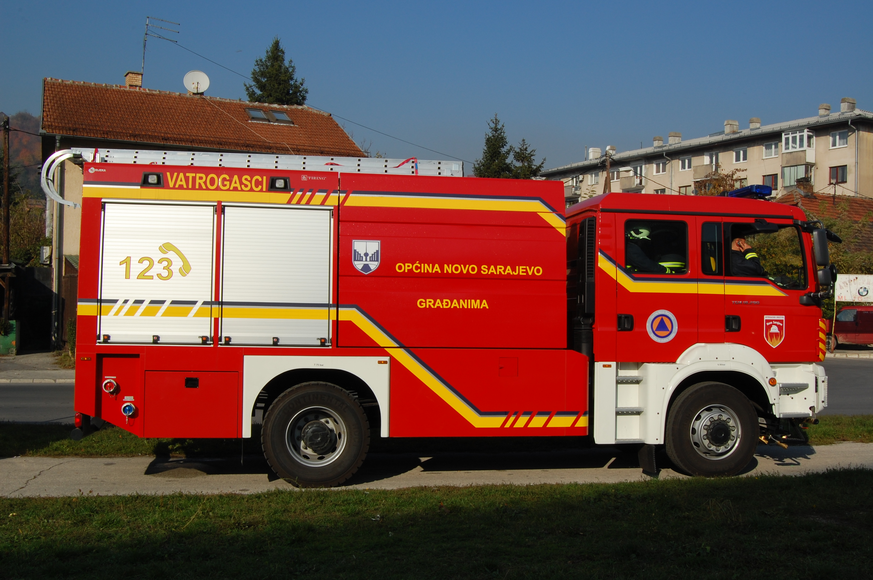 A fire truck on Paromlinska street